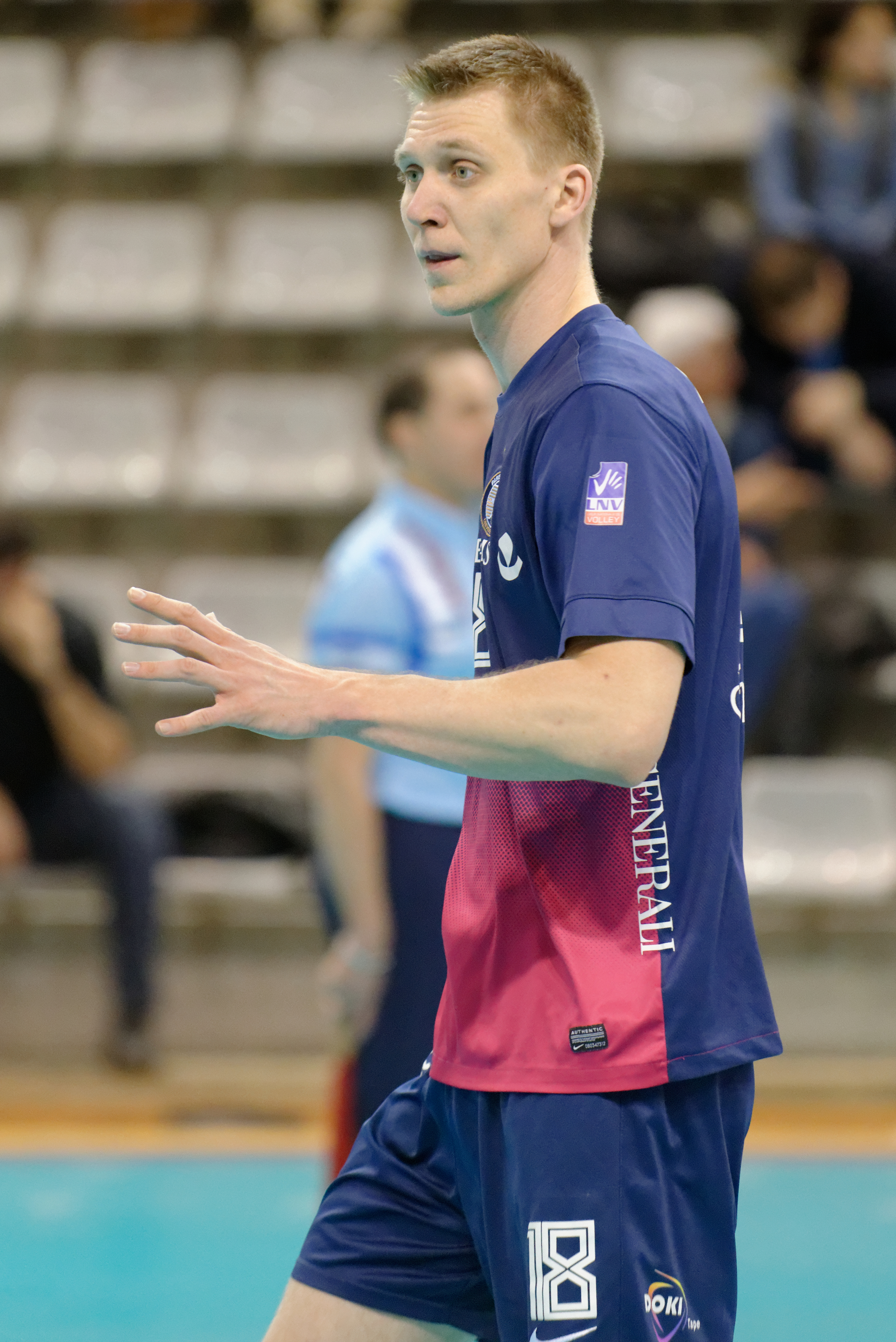 Paris Volley's Ardo Kreek during the final of the 2014 CEV Cup against Guberniya Nizhny Novgorod in Paris on 29 March 2014.